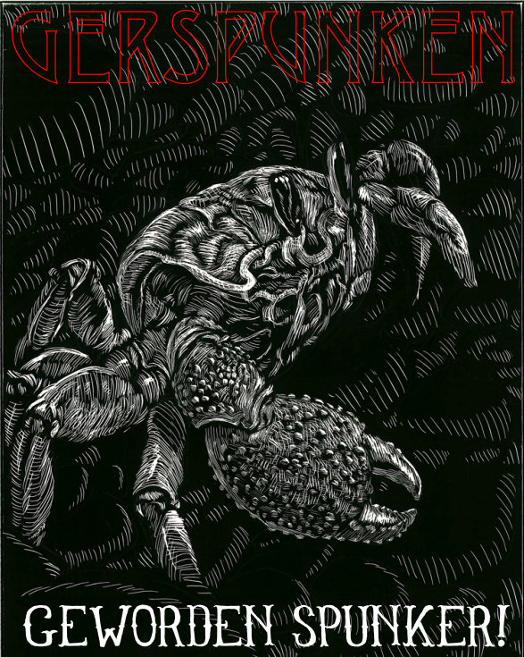 Promotional poster from the 2006 GewordenSpunker! tour of Tyrol and Austria.